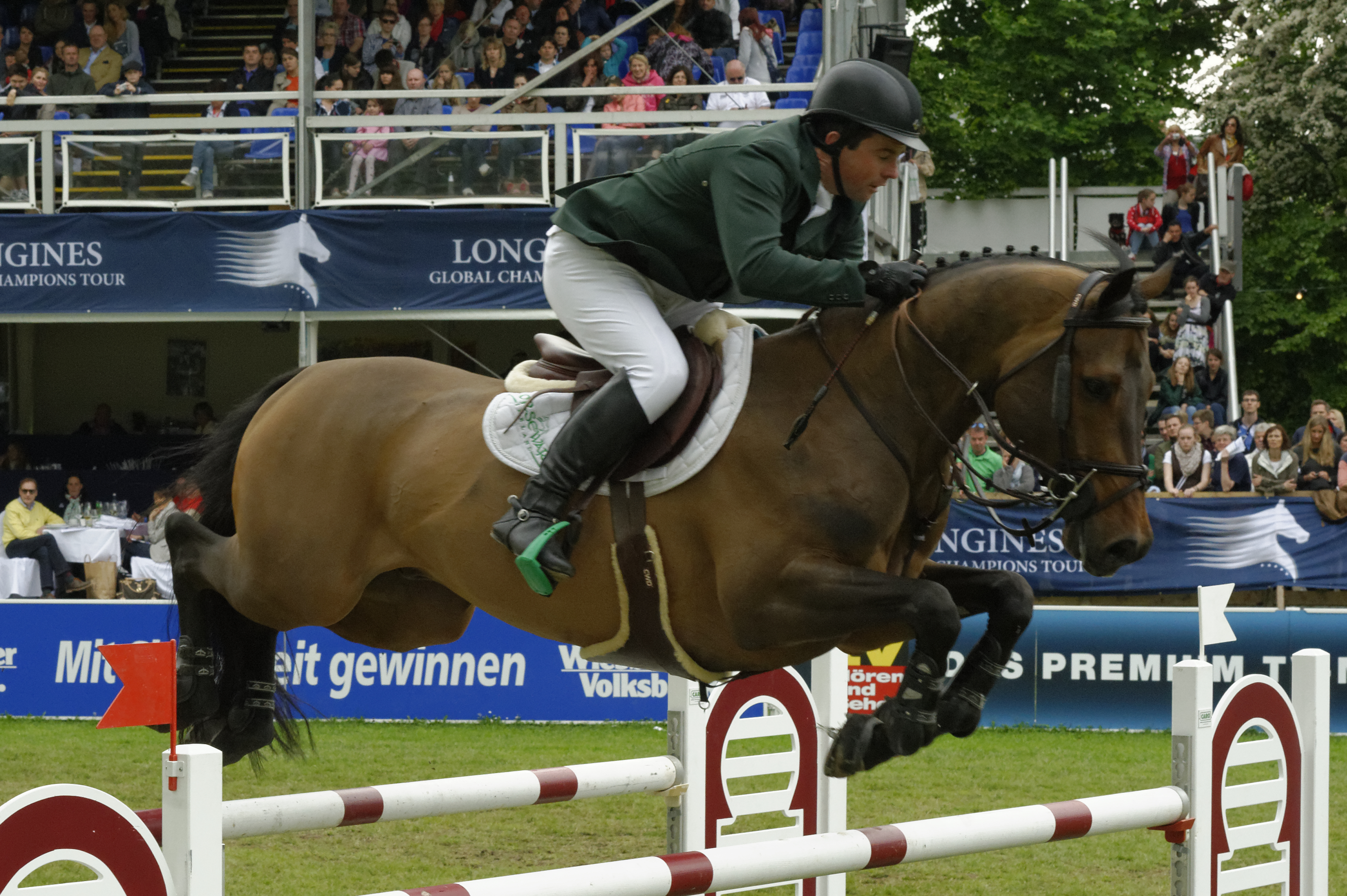 Internationales Pfingstturnier Wiesbaden 2013 The making of this document was supported by the Community-Budget of Wikimedia Germany.